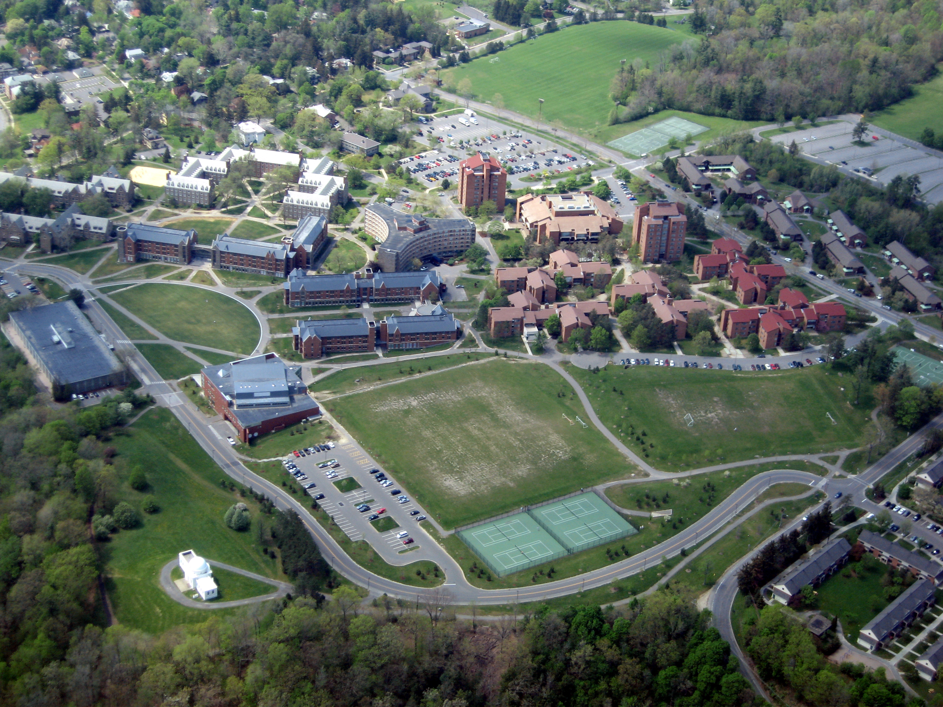 Cornell North Campus. Photo by Trevor Ngo who granted permission to use according to the following license.